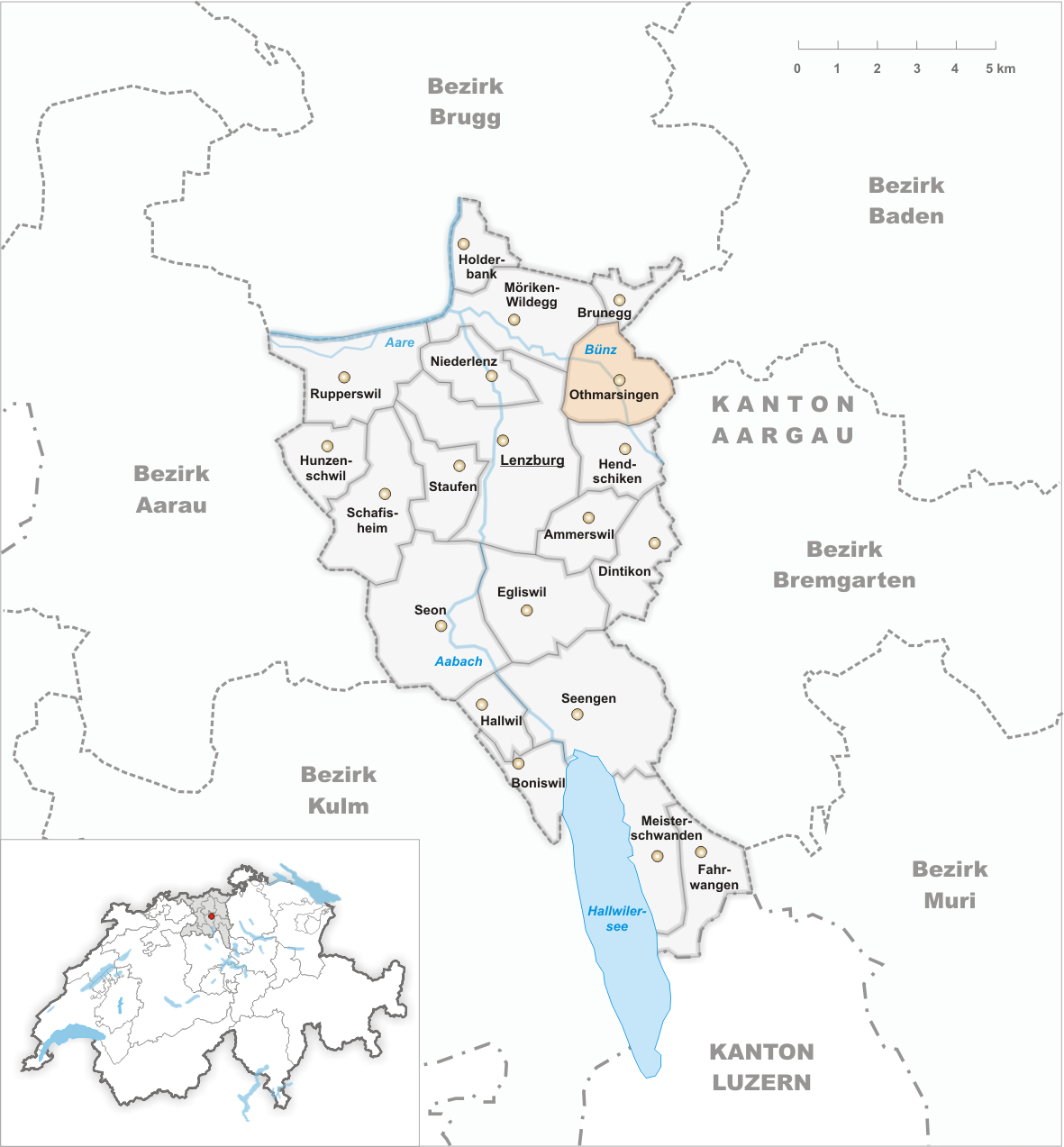 Municipality Othmarsingen